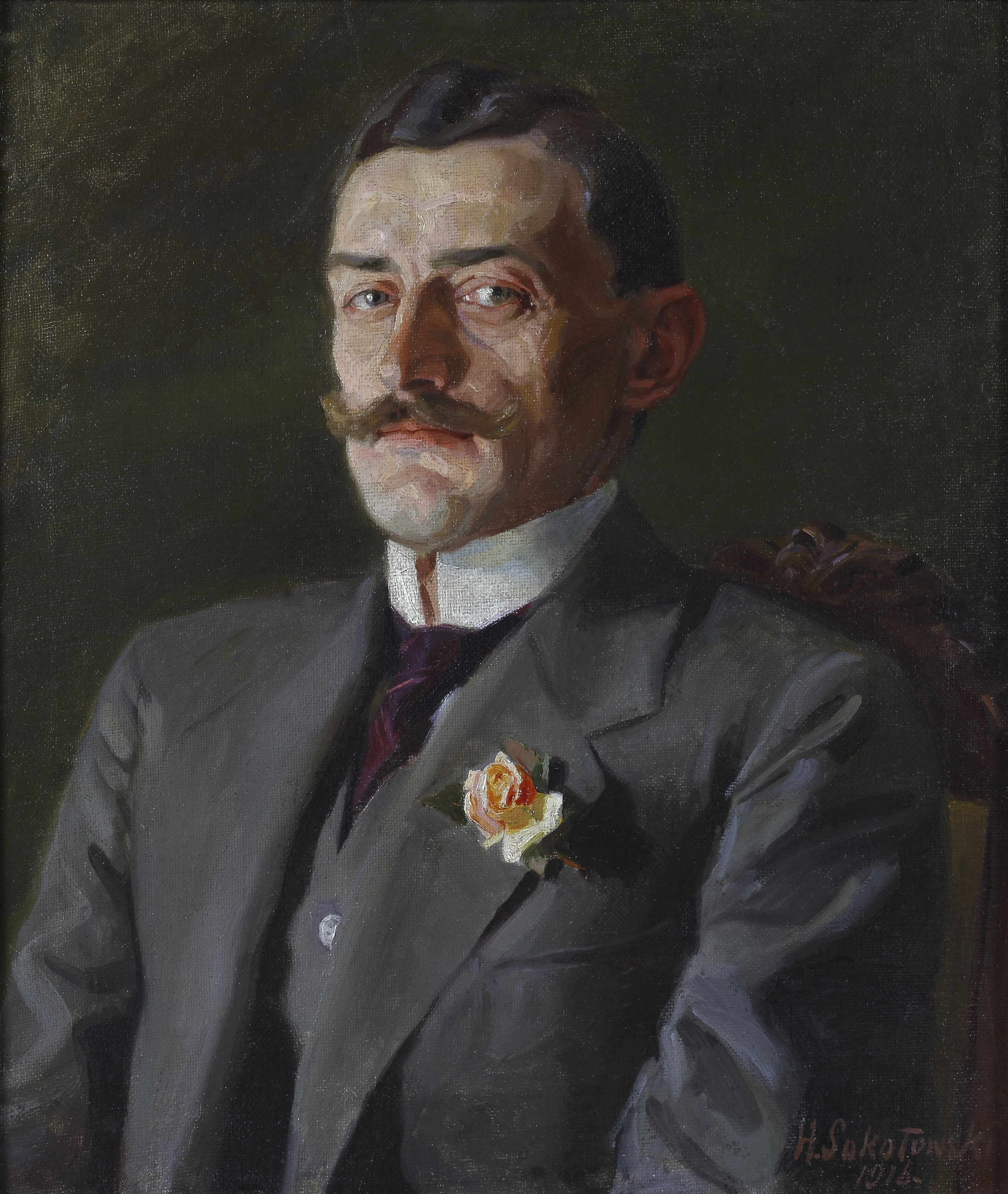 Bronisław Kretkowski painted by Henryk Sokołowski